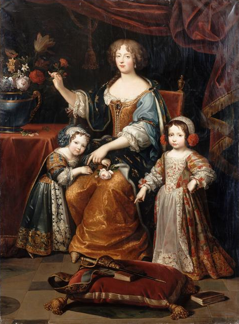 Wrongly identified sometimes as a "Portrait of Louise de La Vallière and two of her children", which is obviously inaccurate, as is shown by the fleurs-de-lis on the ermine robe, which can be only wear by a member of the royal family, in no case by a mistress of the king.